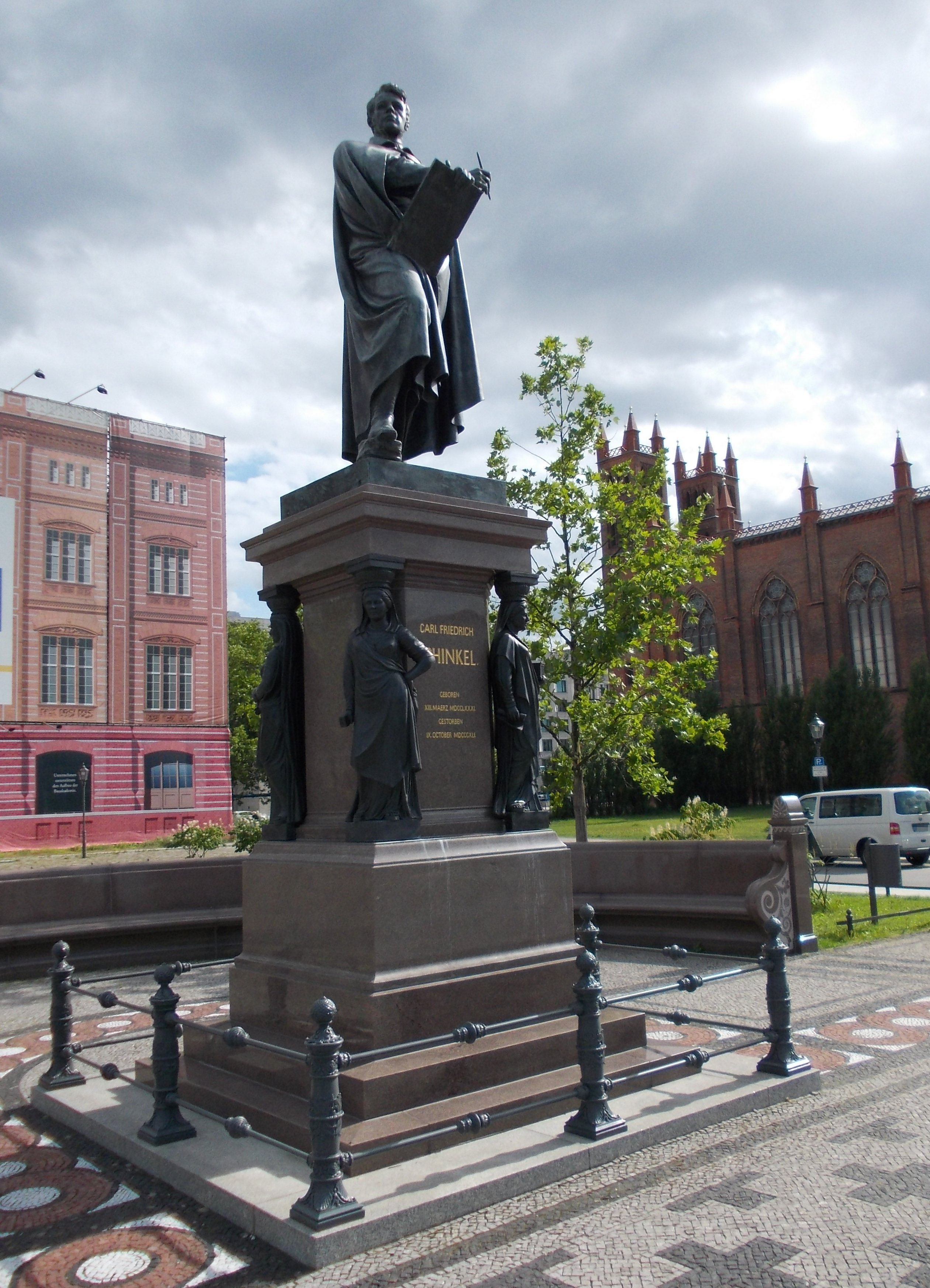 Memorial to Karl Friedrich Schinkel by Friedrich Drake at Schinkelplatz in Berlin